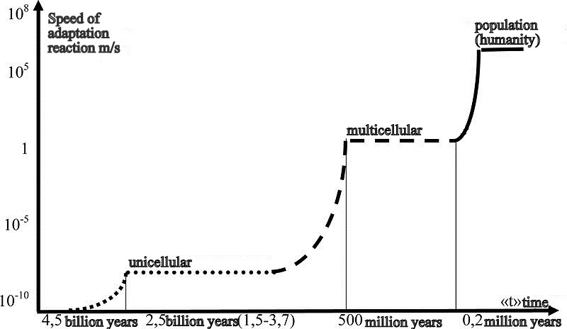 Noogenesis: the evolution of the reaction rate. In unicellular organism – the rate of movement of ions through the membrane 10 in -10 degrees m/s, water through the membrane 10 in -6 degree m/s, intracellular liquid (cytoplasm) 2∙10 in -5 degree m/s; Inside multicellular organism - the speed of blood through the vessels ~0.05 m/s, the momentum along the nerve fibers ~100 m/s; In population (humanity) – communications: sound (voice and audio) ~300 km/h, quantum-electron ~3∙10 in 8 degree m/s (the speed of radio-electromagnetic waves, electric current, light, optical, tele-communications).